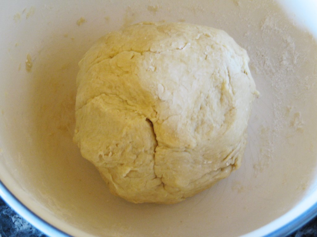 Shortcrust pastry recipe, step 3